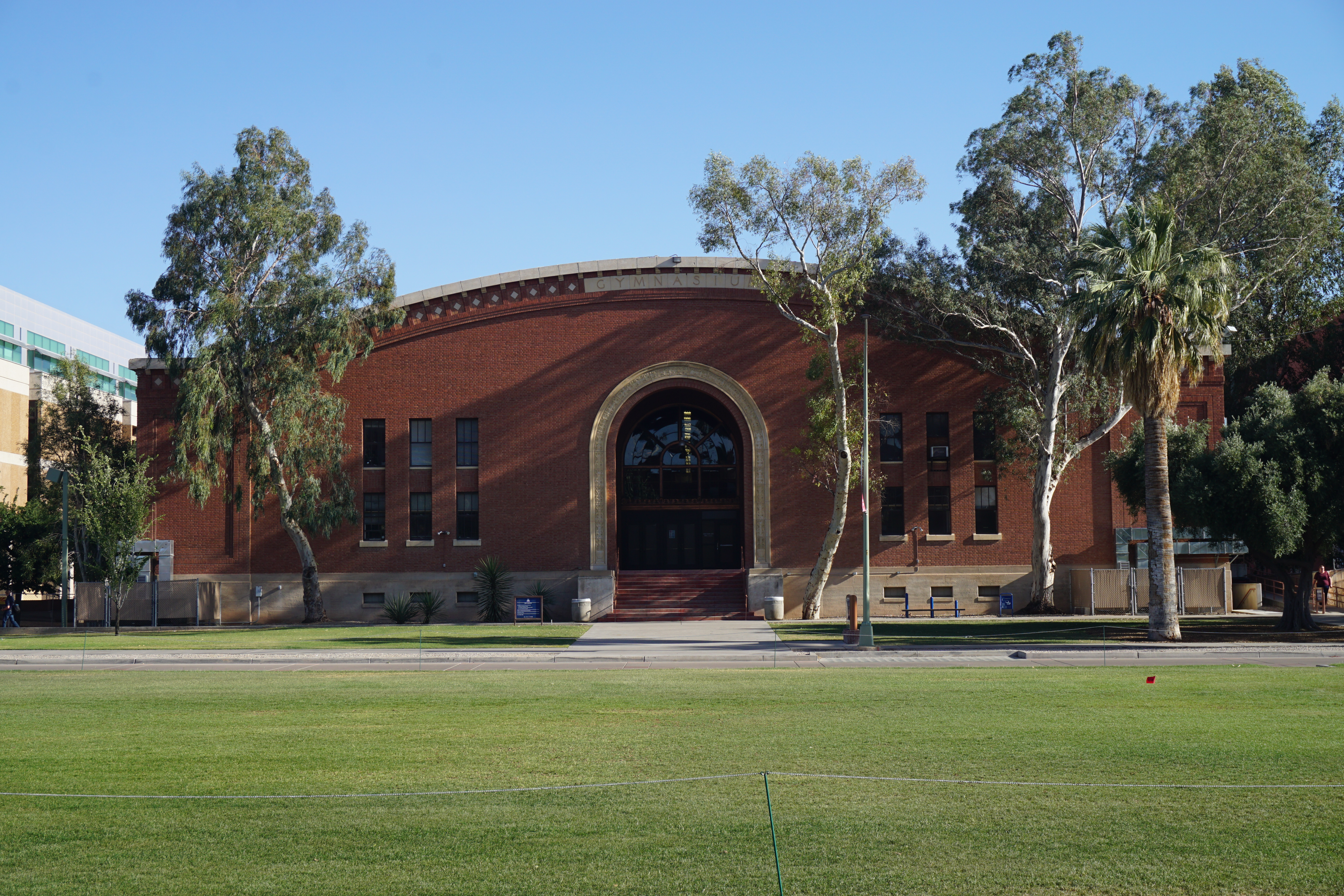 The Bear Down Gymnasium on the campus of the University of Arizona in Tucson, Arizona (United States).